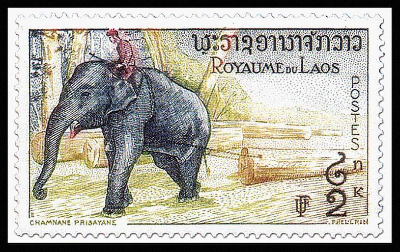 image of Laotian stampsdepicting elephants